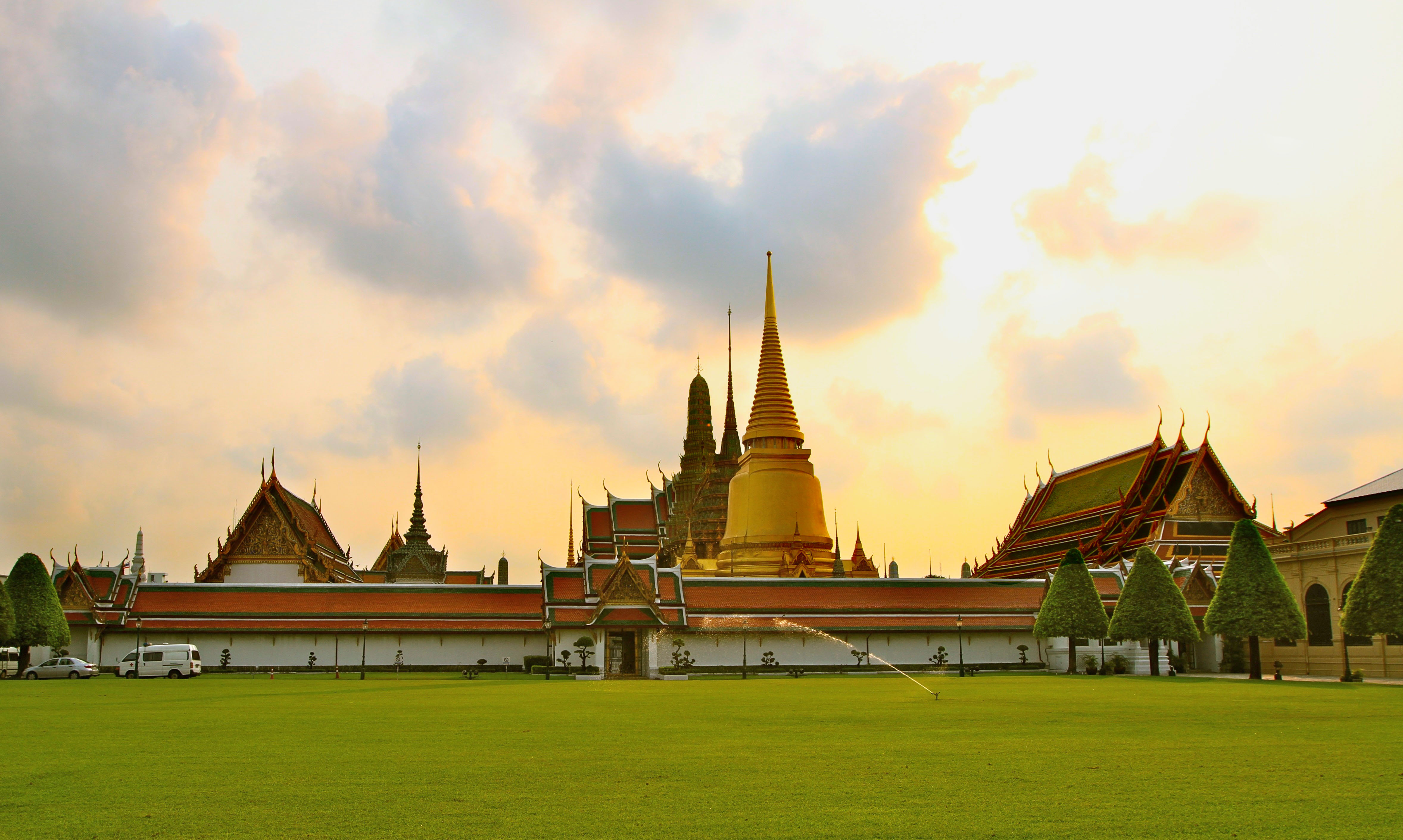 A view of the Temple of the Emerald Buddha from the Outer Court of the Grand Palace, 2012